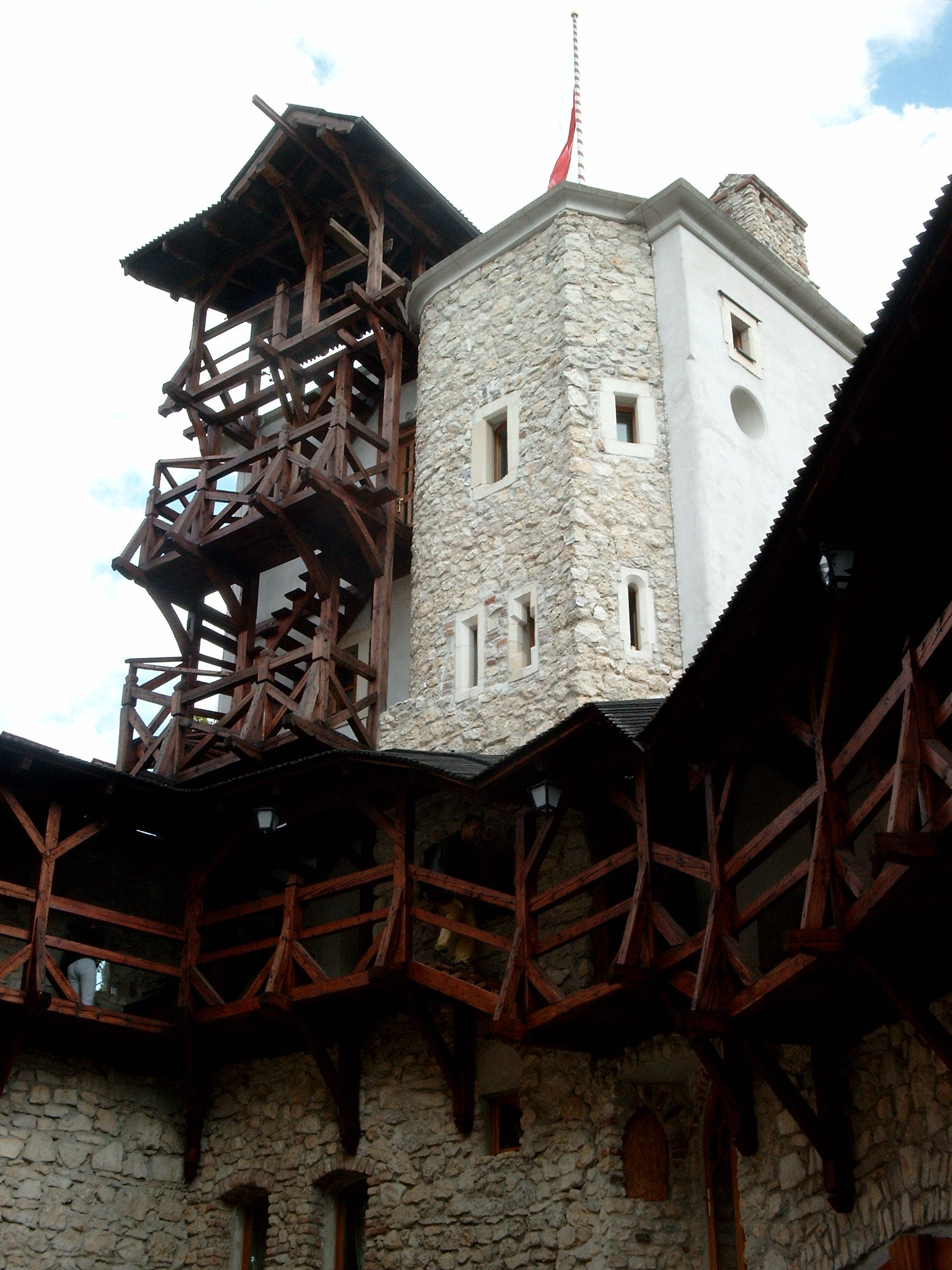 Korzkiew - castle